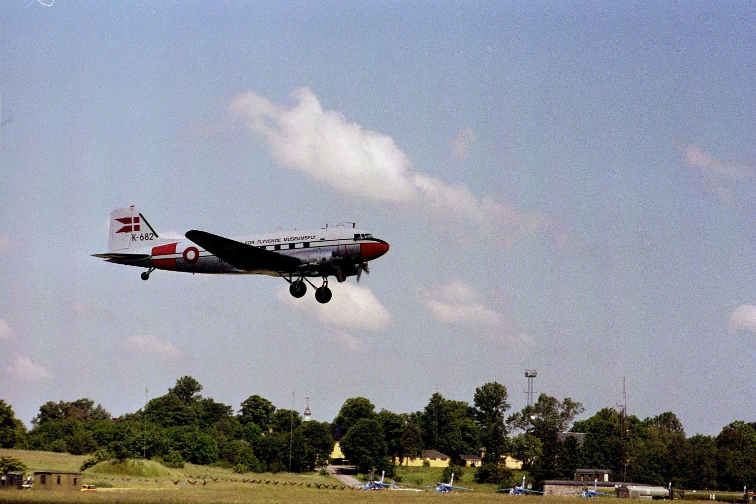 Here seen is a Douglas DC-3 landing at Værløse airport in Copenhagen on an airshow. Taken by me.